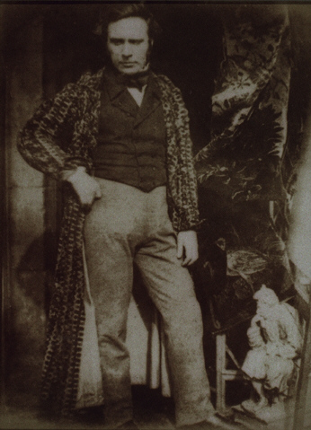 Sir George Harvey (1806 – 1876), Scottish painter